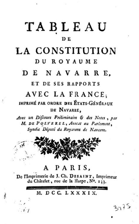 Tableau de la Constitution du Royaume de Navarre et de ses rapports avec la France, report commissioned by the General Estates of the Kingdom of Navarre to their trustee Étienne Polverel (1789)